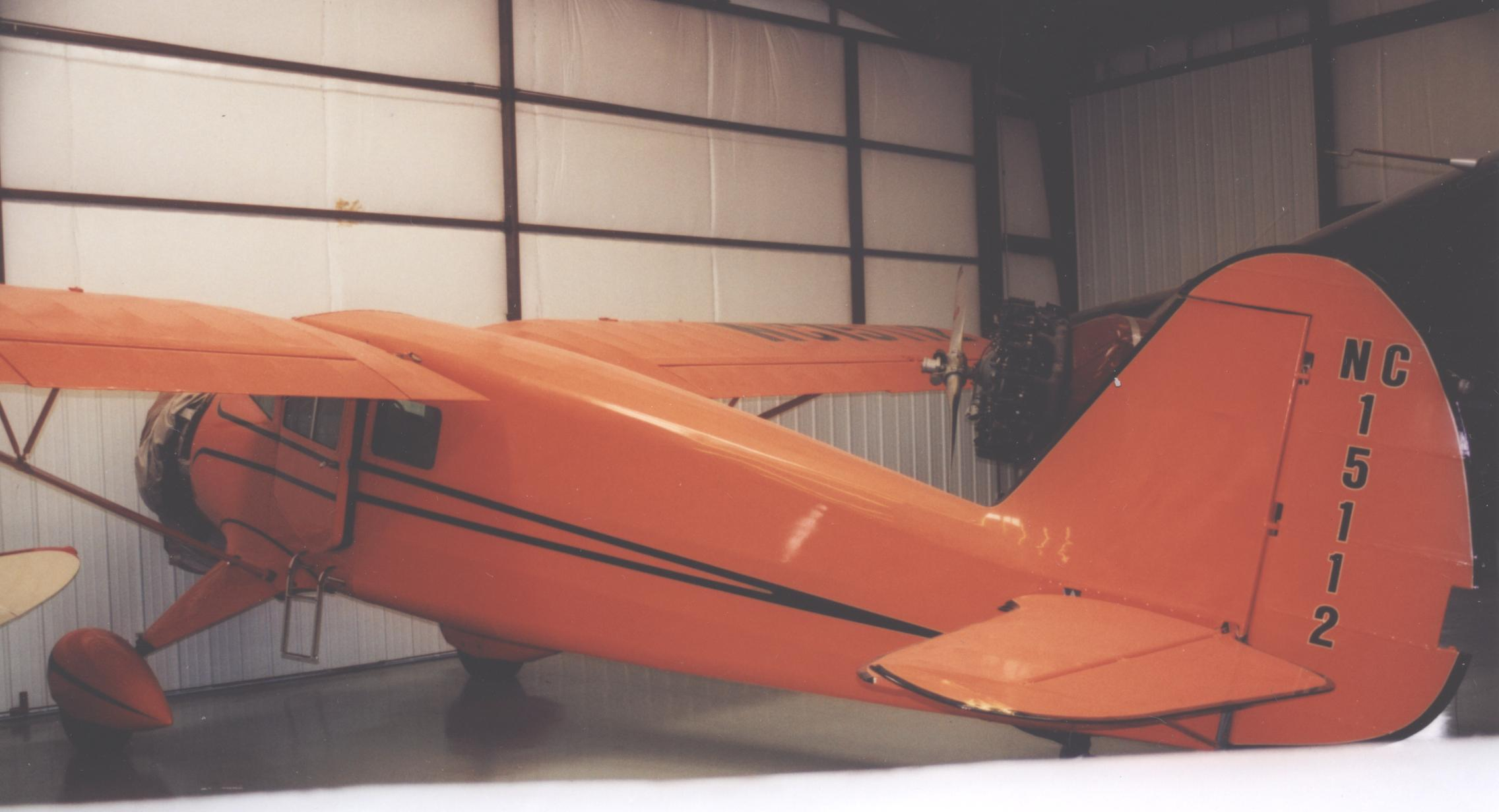 Stinson SR-6 Reliant NC15112 at the Historic Aircraft Preservation Museum, Dauster Field, Creve Coeur, Missouri